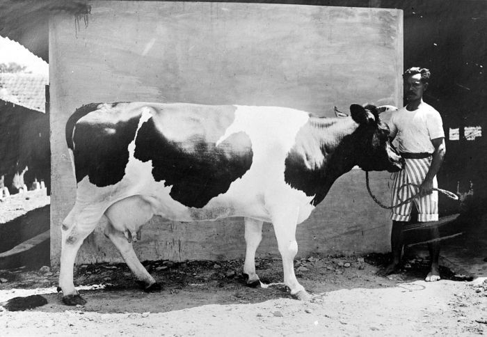 Holstein-Friesian cow born in Java